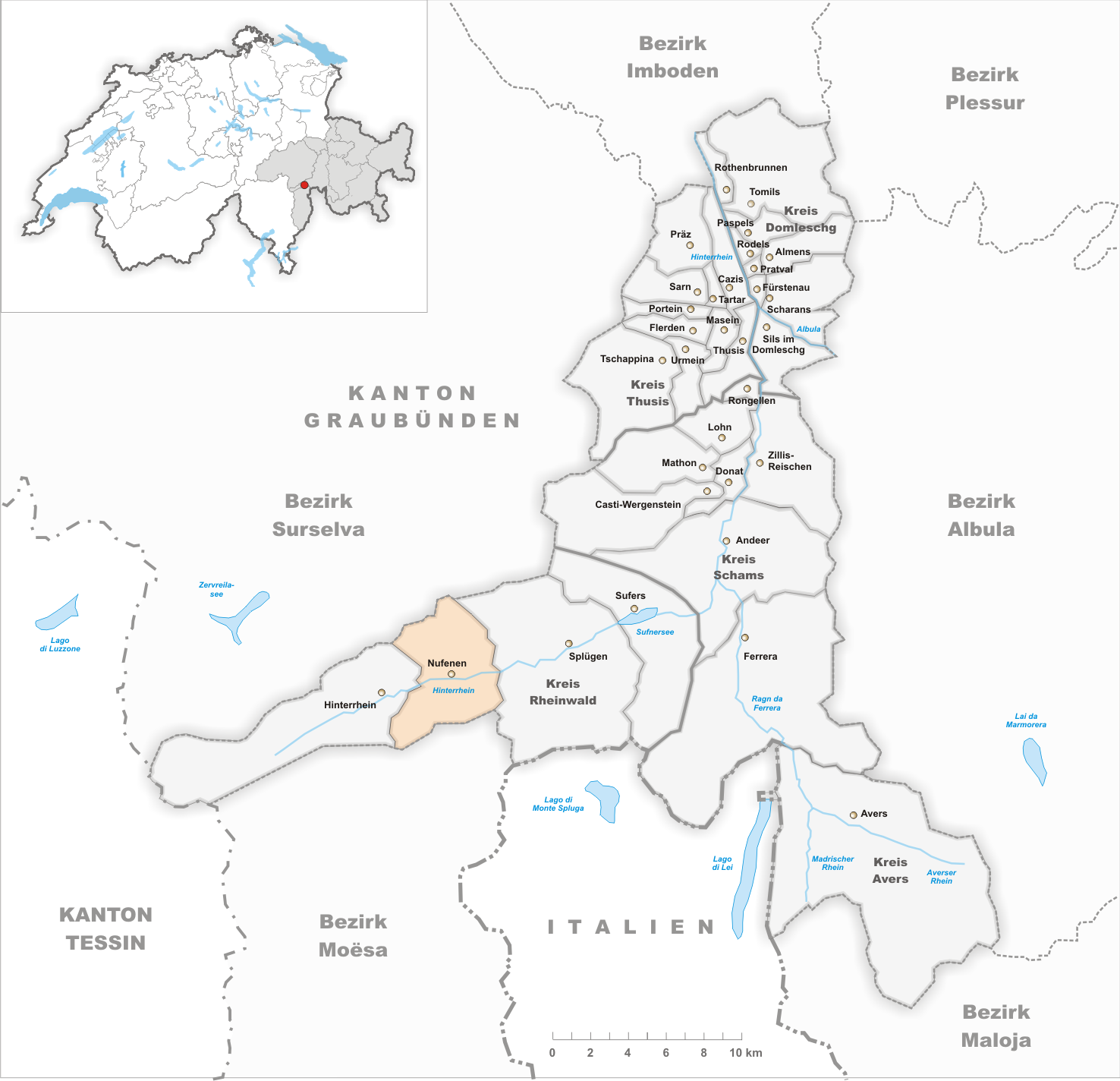 Municipality Nufenen